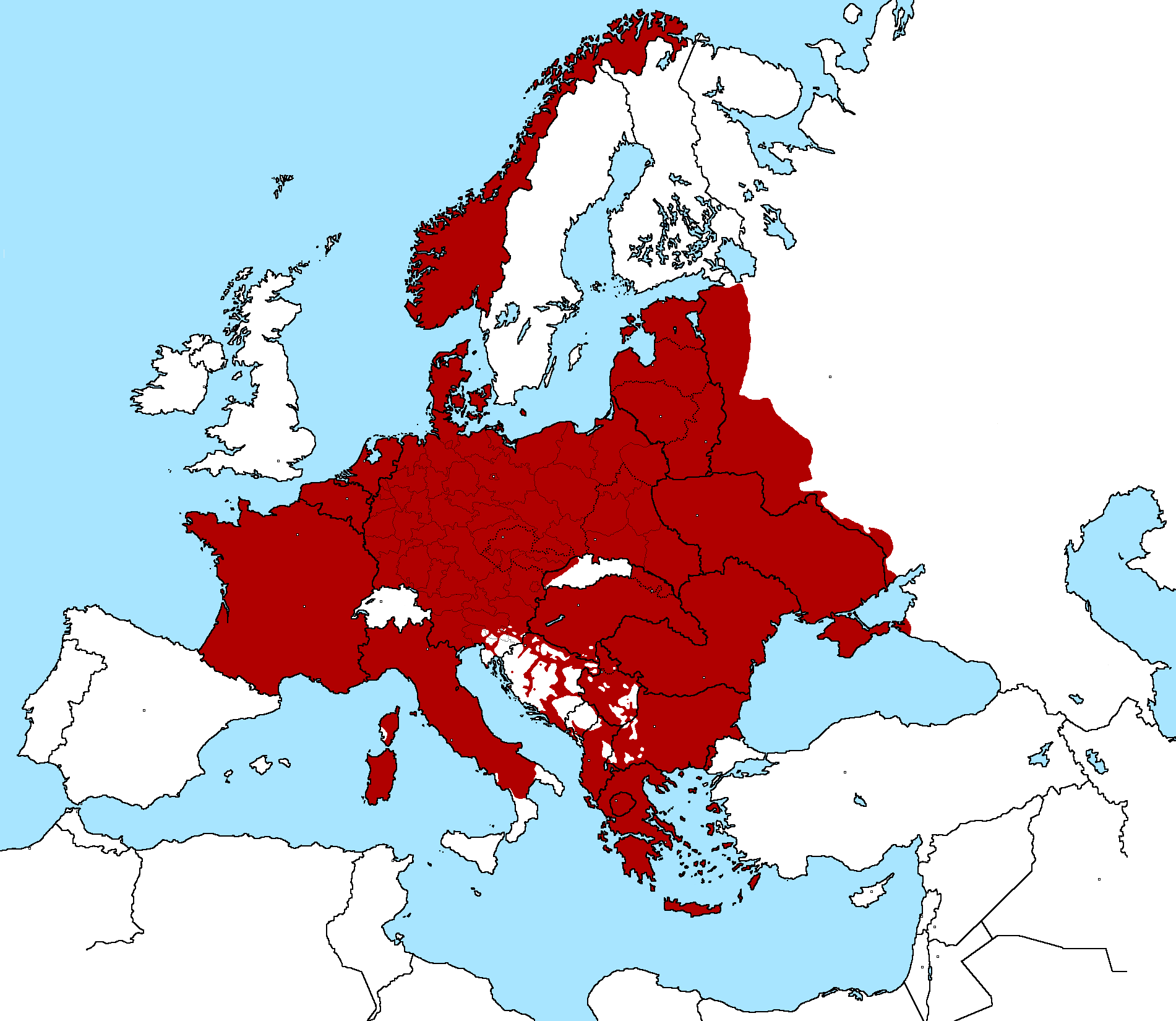 Nazi Occupied Europe: September 1943